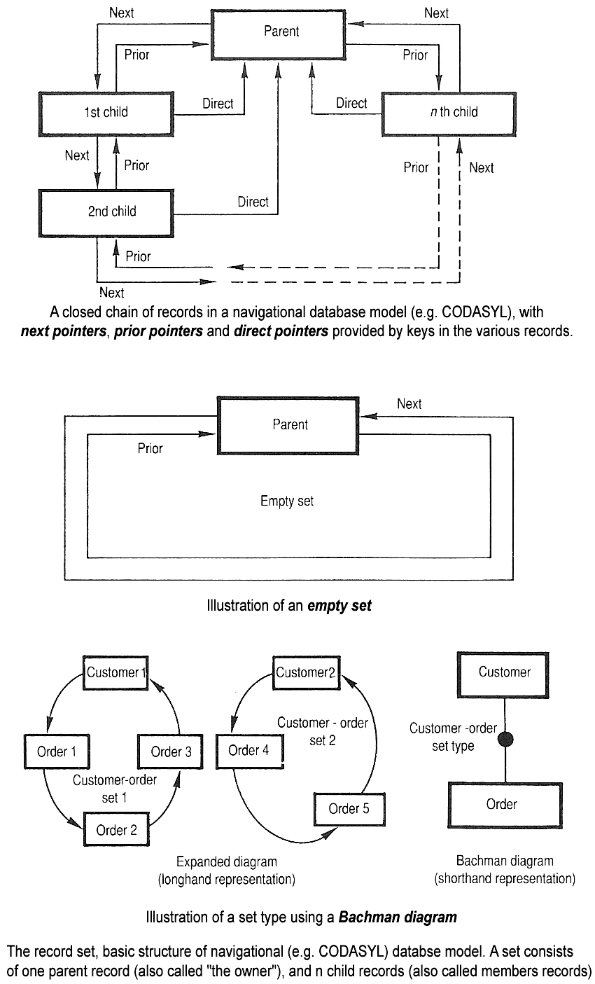 Le set (ou ensemble d'enregistrements liés) constitue l'élément fondamental des modèles de données navigationnels. Chaque set se compose d'un enregistrement père (owner) et de N enregistrements fils (members) - (The record set, basic structure of navigational -e.g. CODASYL- databse model. A set consists of one parent record, also called "the owner", and n child records, also called members records) - "CIM: Principles of Computer Integrated Manufacturing", Jean-Baptiste Waldner, John Wiley & Sons, 1992. Reproduced with author's authorization